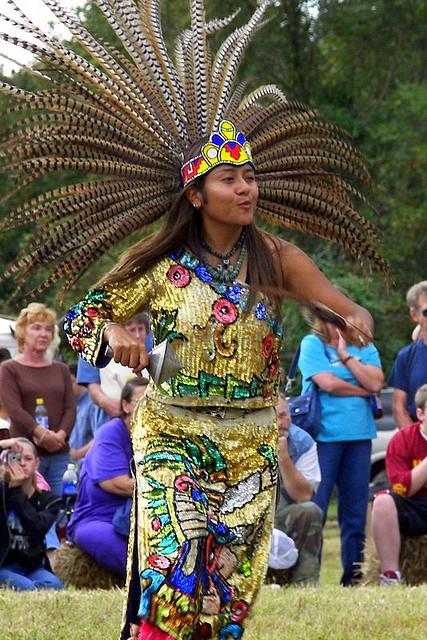 A woman performing a recreation of an Aztec fire dance for tourists